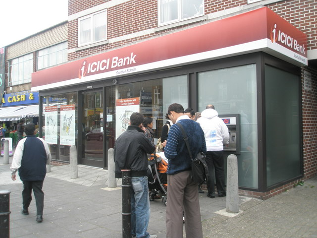 ICICI bank in South Road